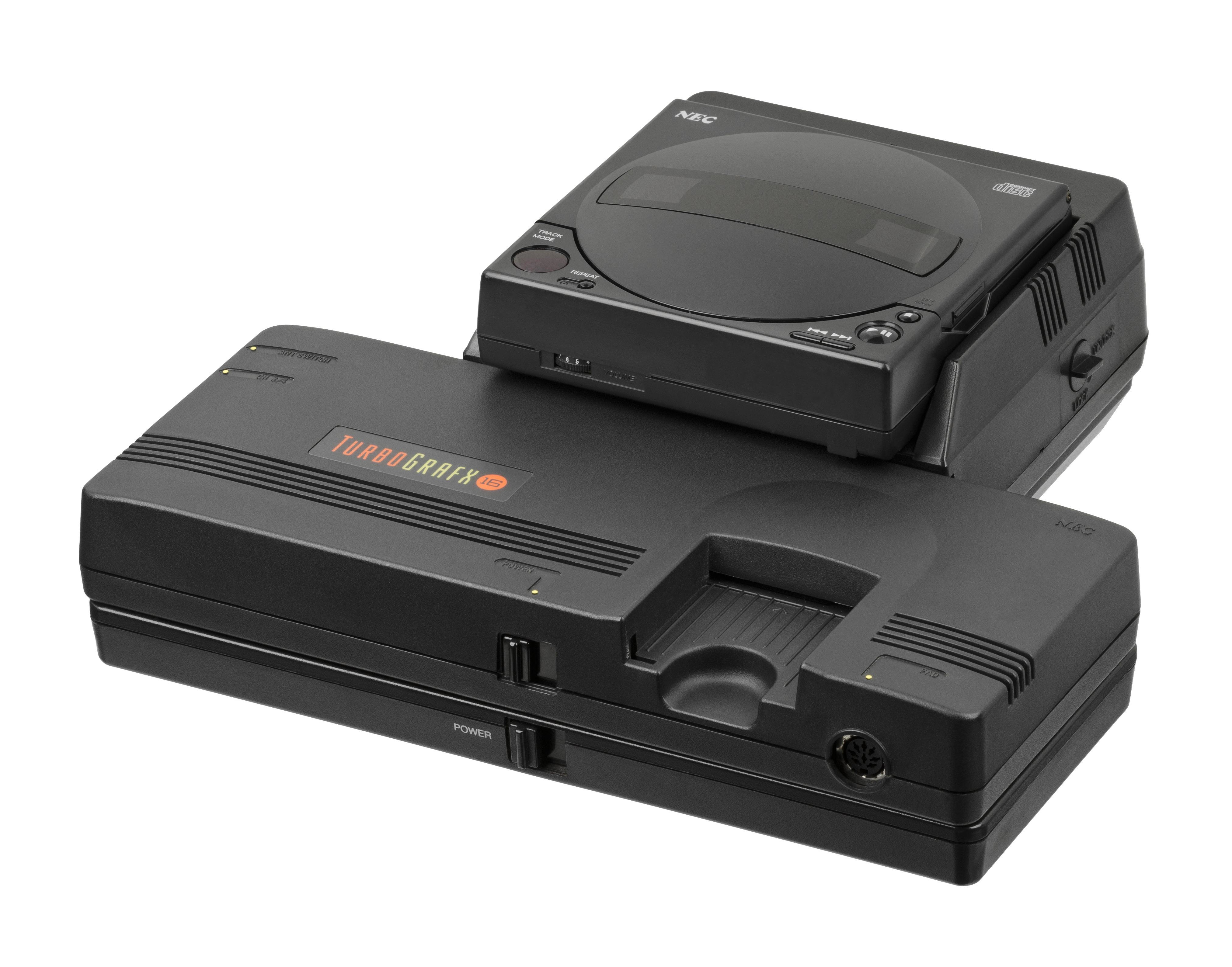 The North America TurboGrafx 16 with CD unit attached. The first console to have a CD-ROM attachement/capability, the unit came with a dock and a detachable CD-ROM drive.